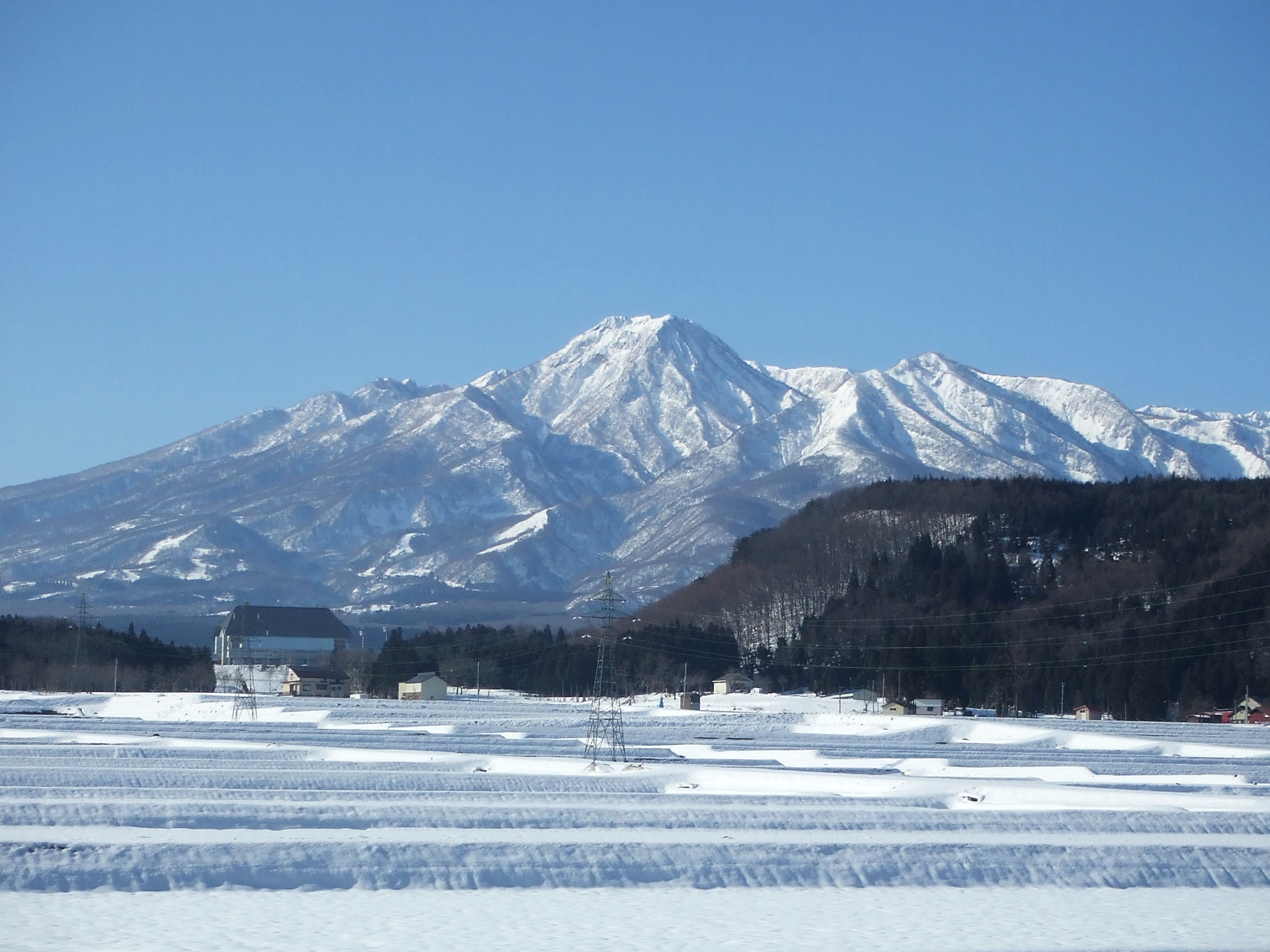 Mt.Myoko and its somma seen from Haradori area, Myoko city, Niigata prefecture(Northeast direction).